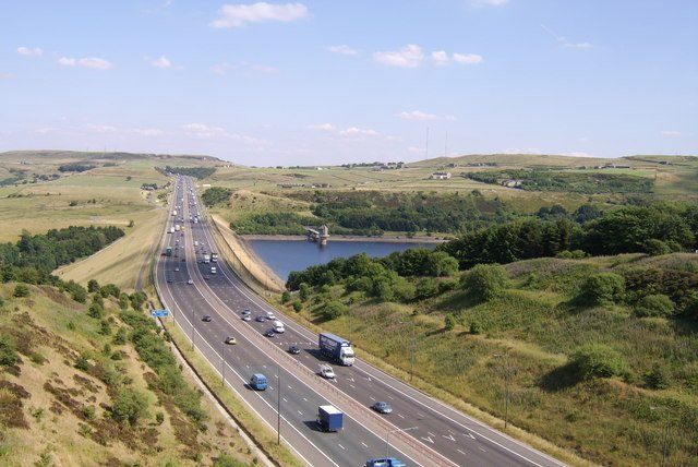 The M62 motorway in Calderdale, Northern England.